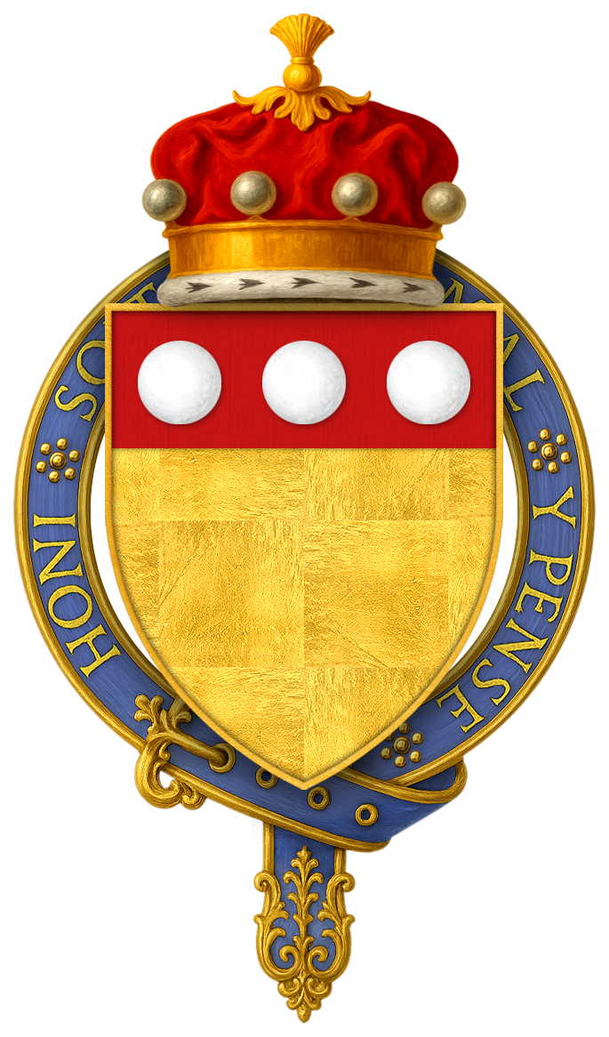 Sir Thomas de Camoys, 1st Baron Camoys, KG FOSTER, Joseph, Some Feudal Coats of Arms from Heraldic Rolls 1298-1418, London: James Parker & Co., 1902. “ Camoyes, Le Sr. - bore, at the siege of Rouen 1418, or, on a chief gules three plates -- borne also by Sir Raphe and Sir Thomas, K.G. In Howard and Dering Rolls, two plates only are ascribed to John -- in the Camden Roll the (3) plates are in fess -- in Grimaldi Roll three torteux are ascribed to Rauf. ”